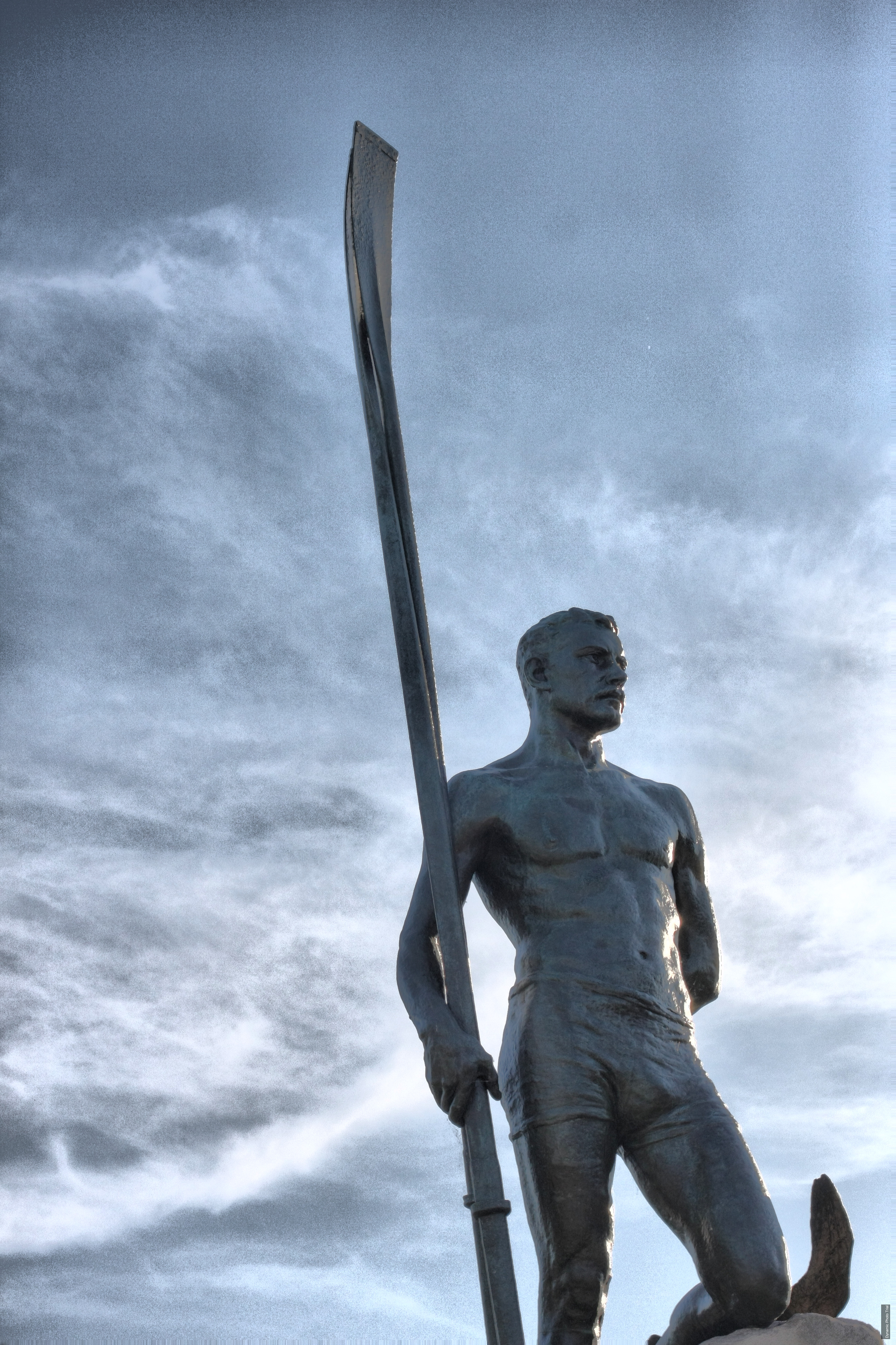 Edward Ned Hanlan - 1855-1908 Canada's First International Sports Hero